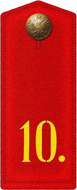 Private of Russian New Ingria 10th infantry regiment